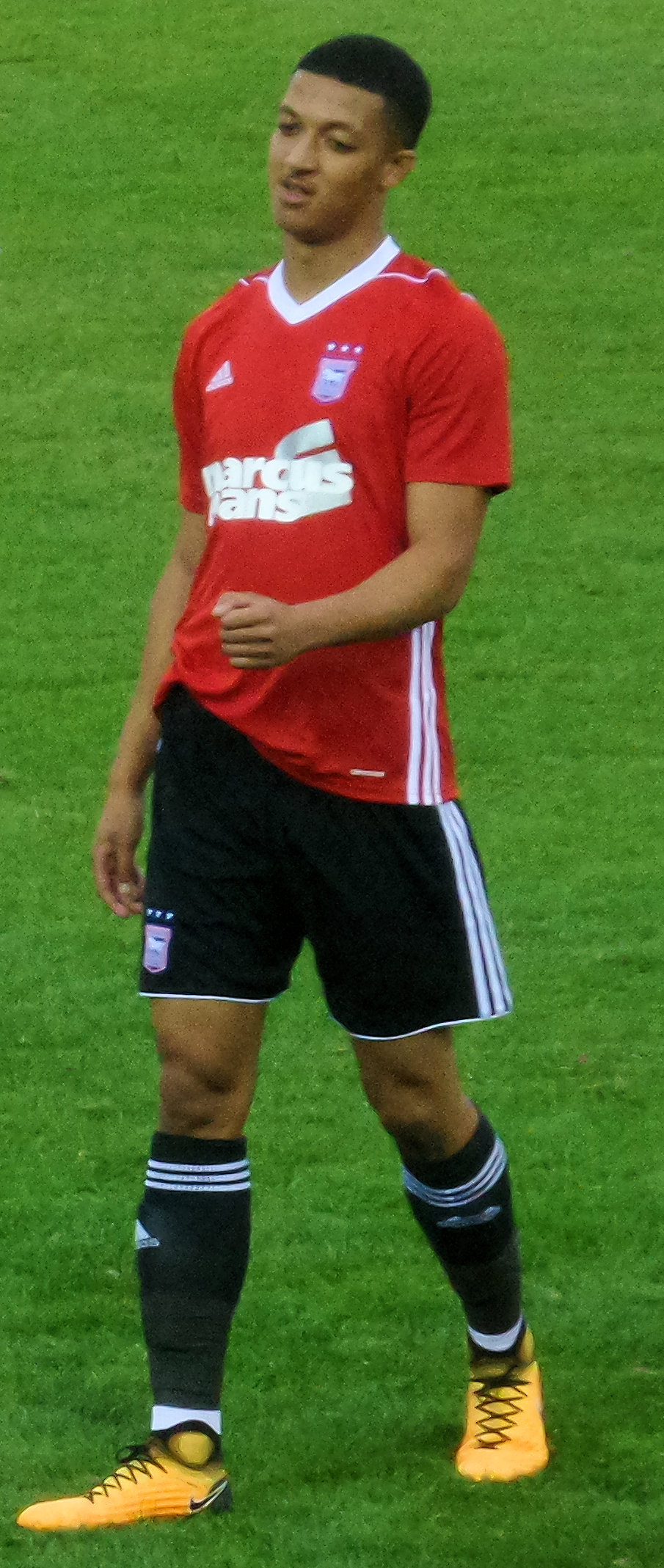 Myles Kenlock playing for Ipswich Town at Peterborough United on 18 July 2017